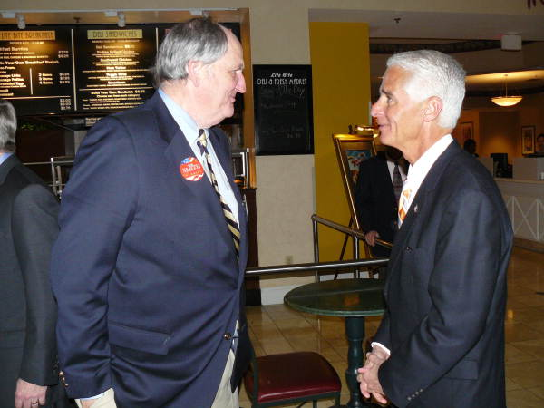 Accompanying note: "Gov. Charlie Crist (R) chats with former U.S. Sen. Bob Smith of Sarasota at the 2010 Florida Republican Party annual meeting in Orlando on Jan. 8, 2010. Smith represented New Hampshire in Congress for many years before retiring to Florida. He decided to get back into politics, challenging Crist and former House Speaker Marco Rubio of West Miami for the Republican nomination to the Senate in 2010."